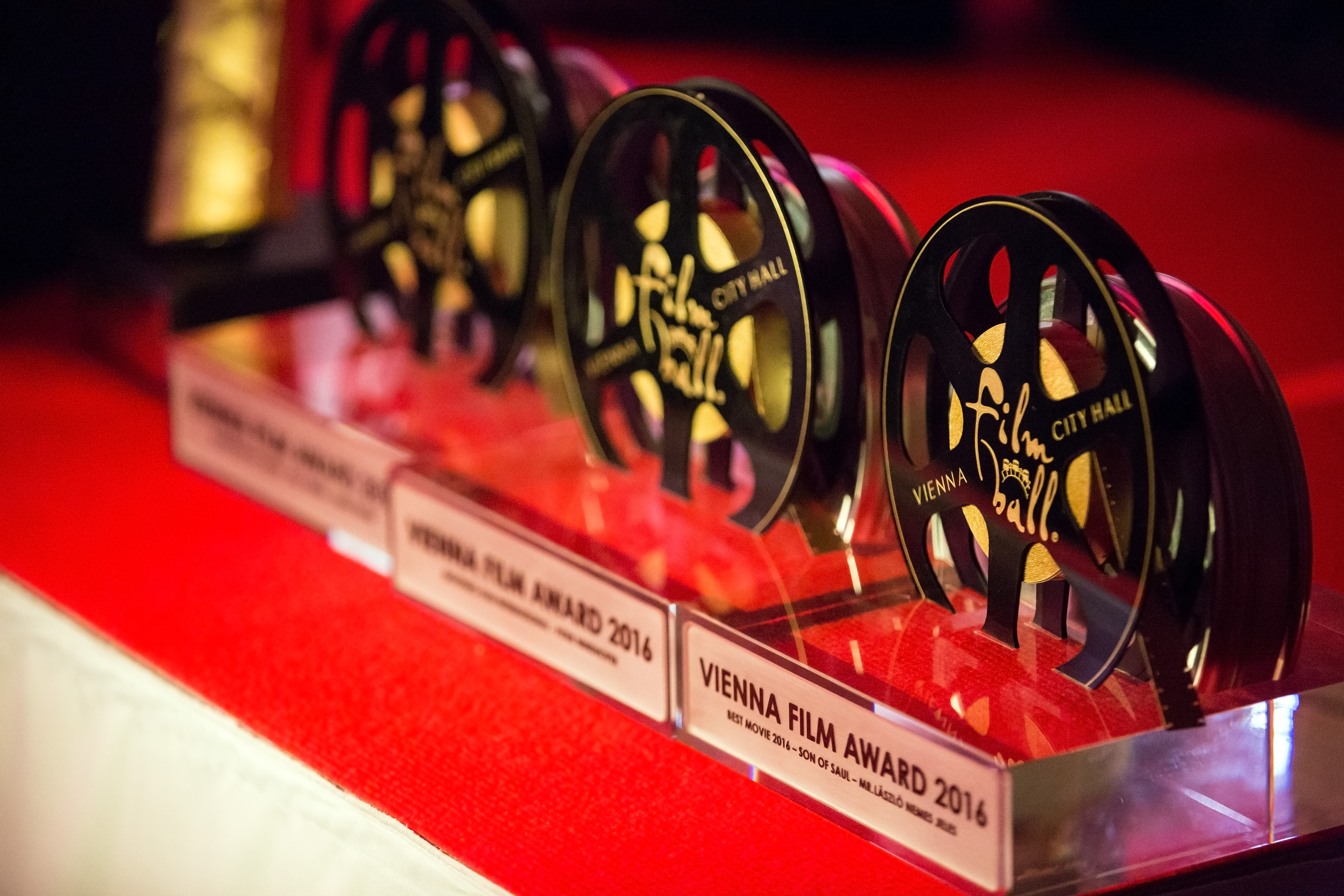 Trophies of the Vienna Film Award at the Filmball Vienna 2016, Rathaus, Vienna, Austria.